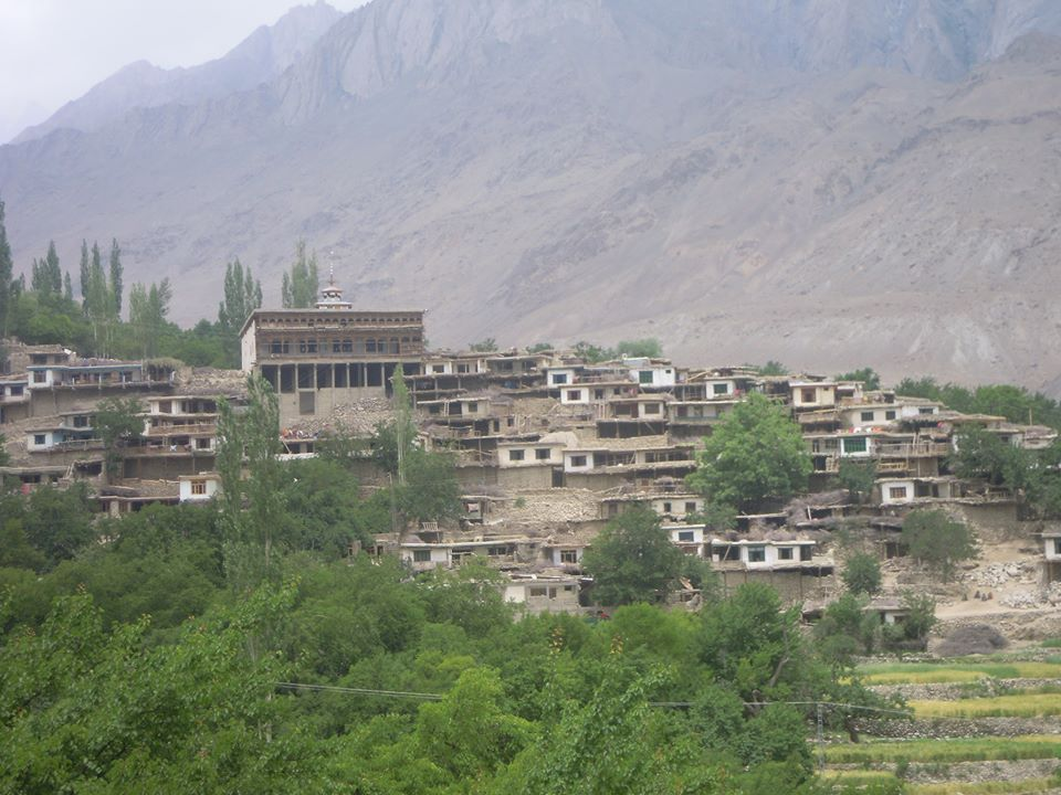 Hushe village, on the way to Mushabrum peak, Ghanche District, Baltistan